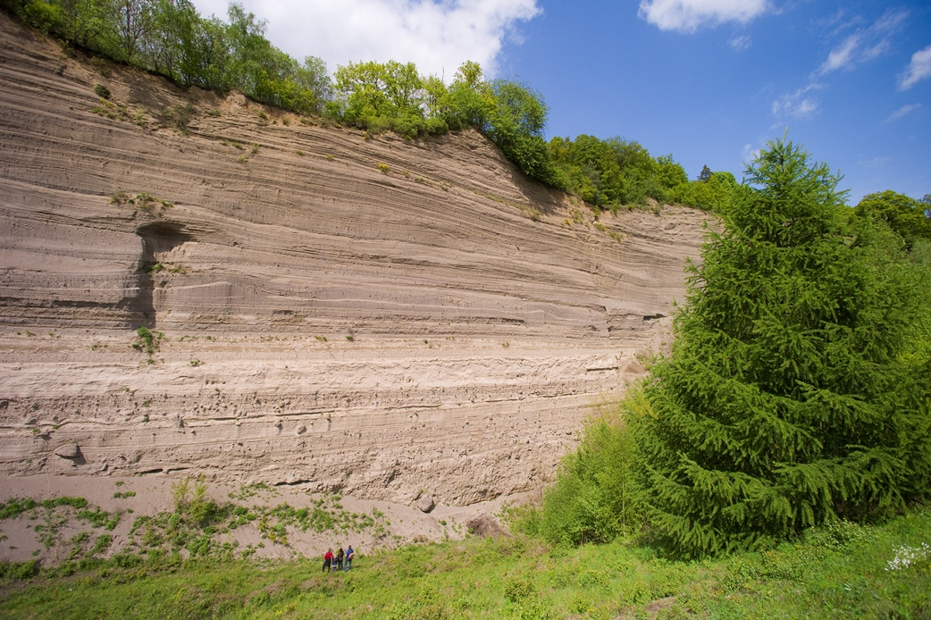 Wingertsbergwand